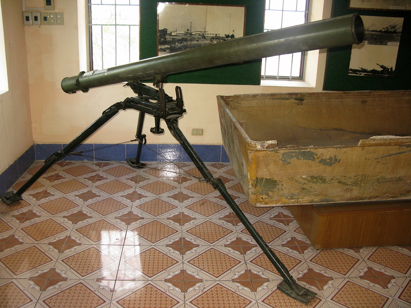 A DKB rocket launcher of Vietnam People's Army was utilized by the Bridge 115 to attack Tan Son Nhat airport in the afternoon of 29th April 1975. It is now shown in Museum of Ho Chi Minh Operation.